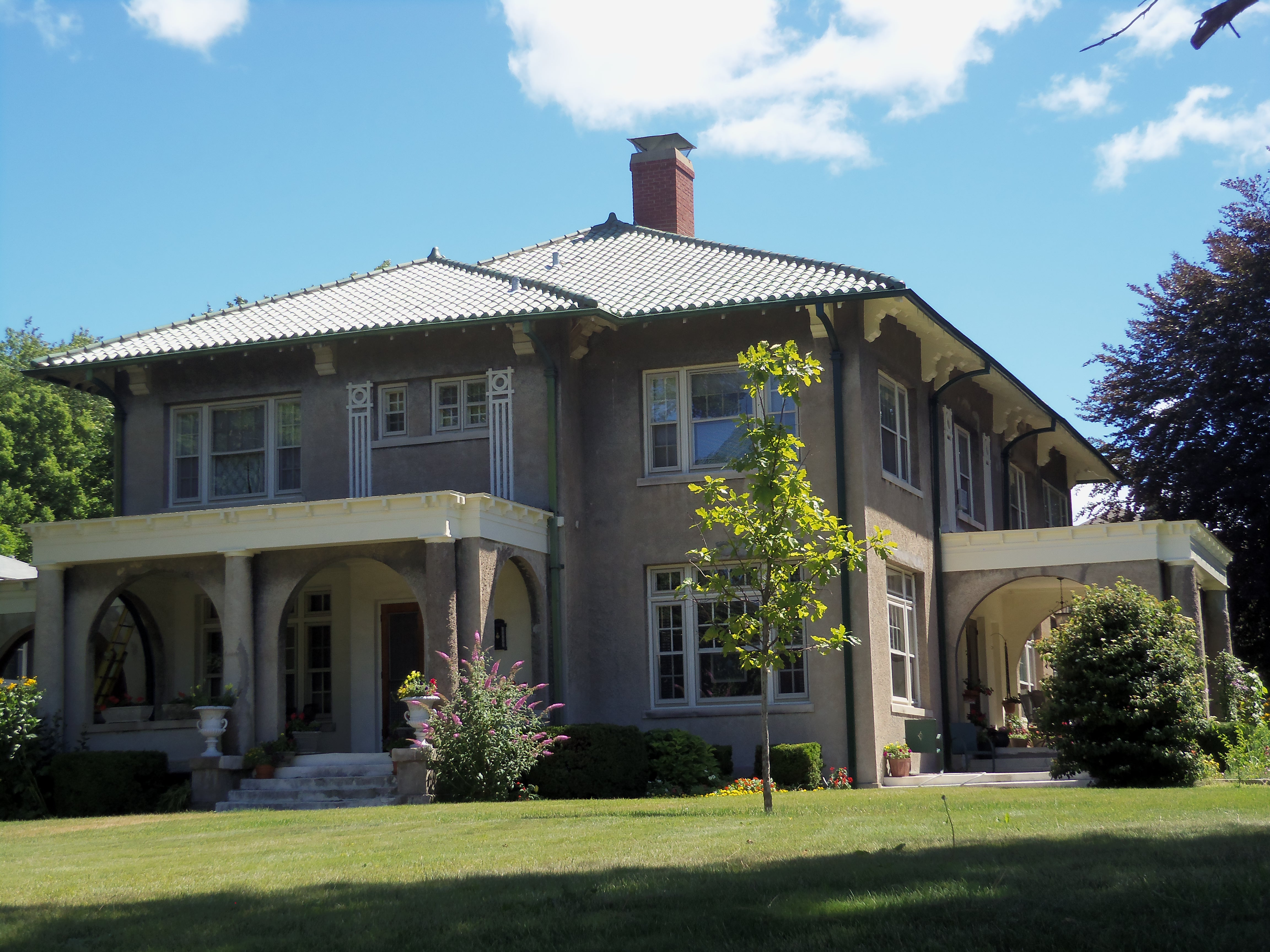 The Louis Marks House, 2203 Brady Street in the Vander Veer Park Historic District in Davenport, Iowa.